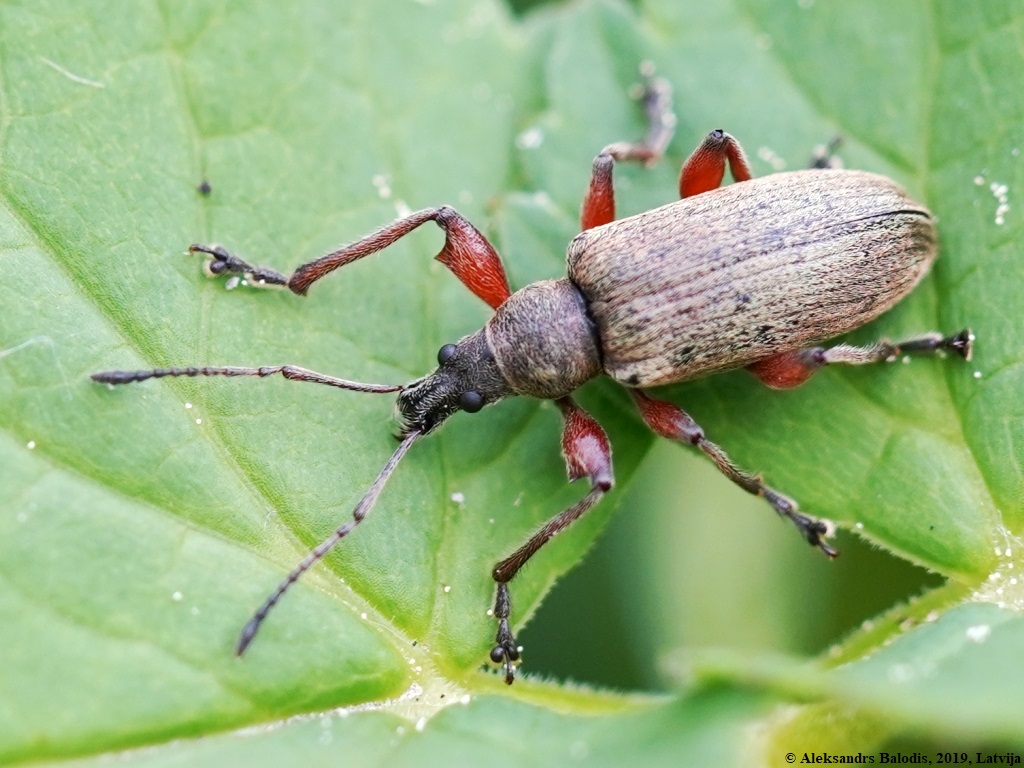 Phyllobius glaucus